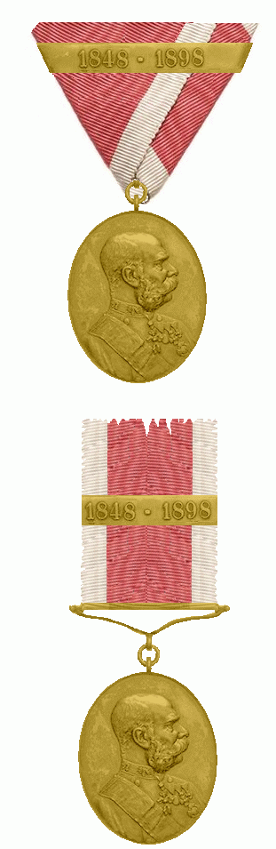 Medal for the Imperial and Royal Court 1898 Austria-Hungaria